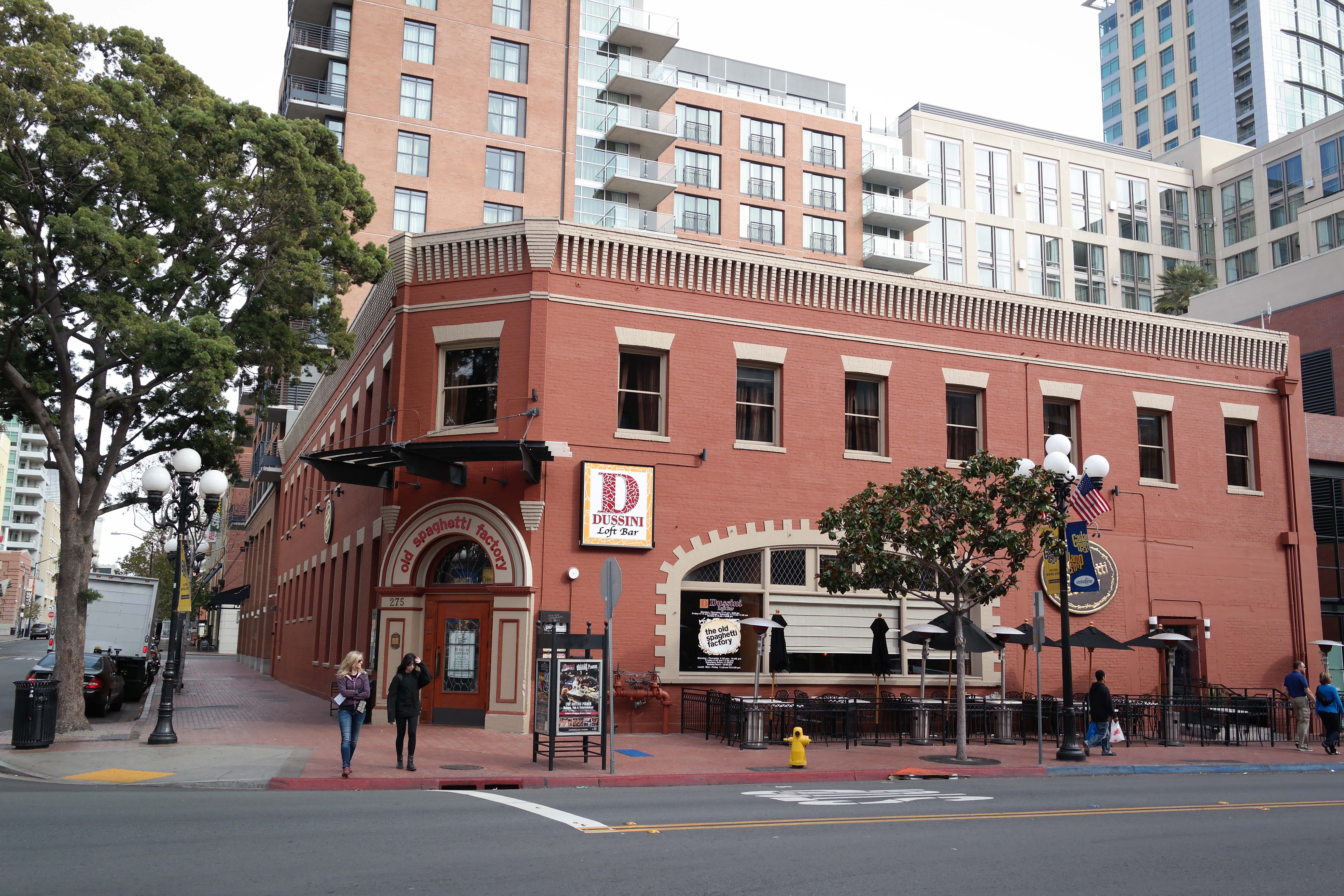 Historic Building Survey plaque: "71 The Buel-Town Building, 1898. With its arched corner entrance, bay window, and corbelled brick cornice, this building reflects the originality of the architects Hebbard and Gill. Gill, the principle designer, had a preference for natural forms, over the highly ornate European styles common of his era. This is evident in this structure, which was one of his earliest works. After serving tenants such as the Western Metal Company and Buel-Town Chemicals, the building was converted for use as The Old Spaghetti Factory Restaurant in 1974."